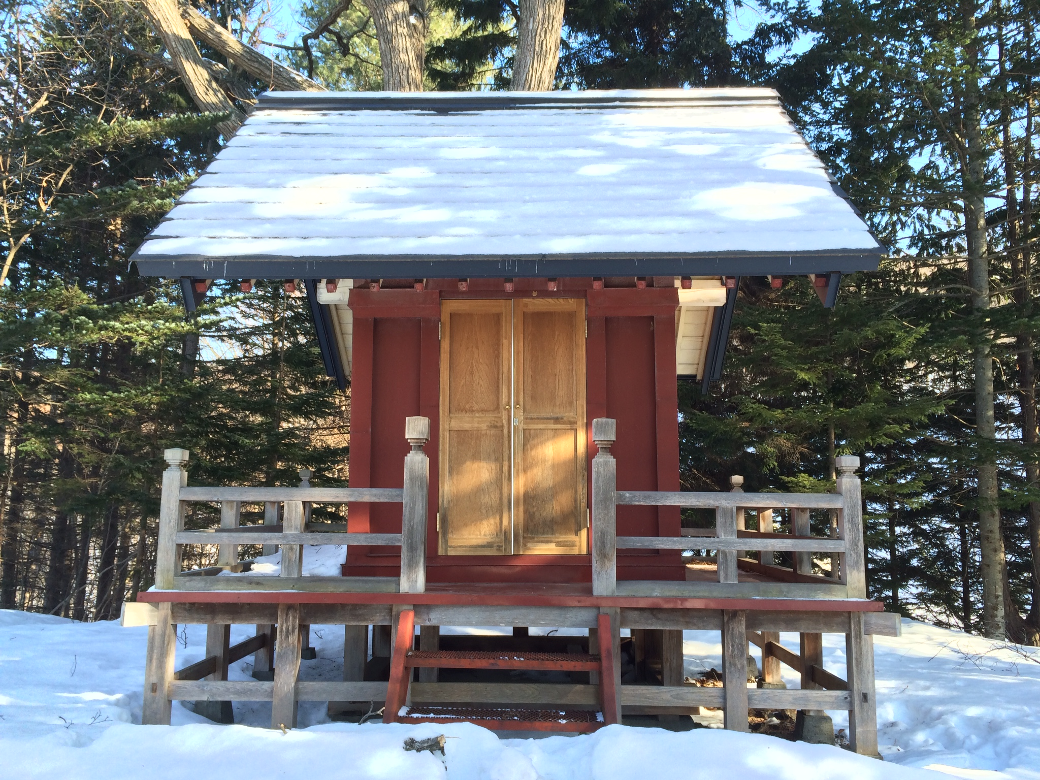 Yobito Shrine (Yobito-jinja) in Abashiri City, Hokkaido, Japan